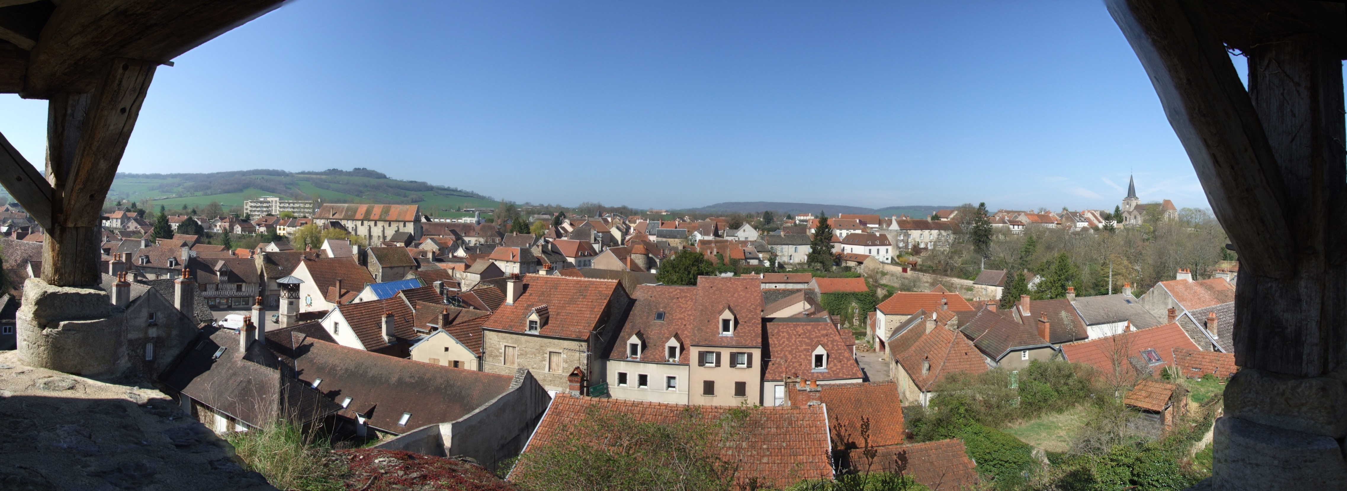 Panoramic view of Vitteaux, Burgundy, FRANCE